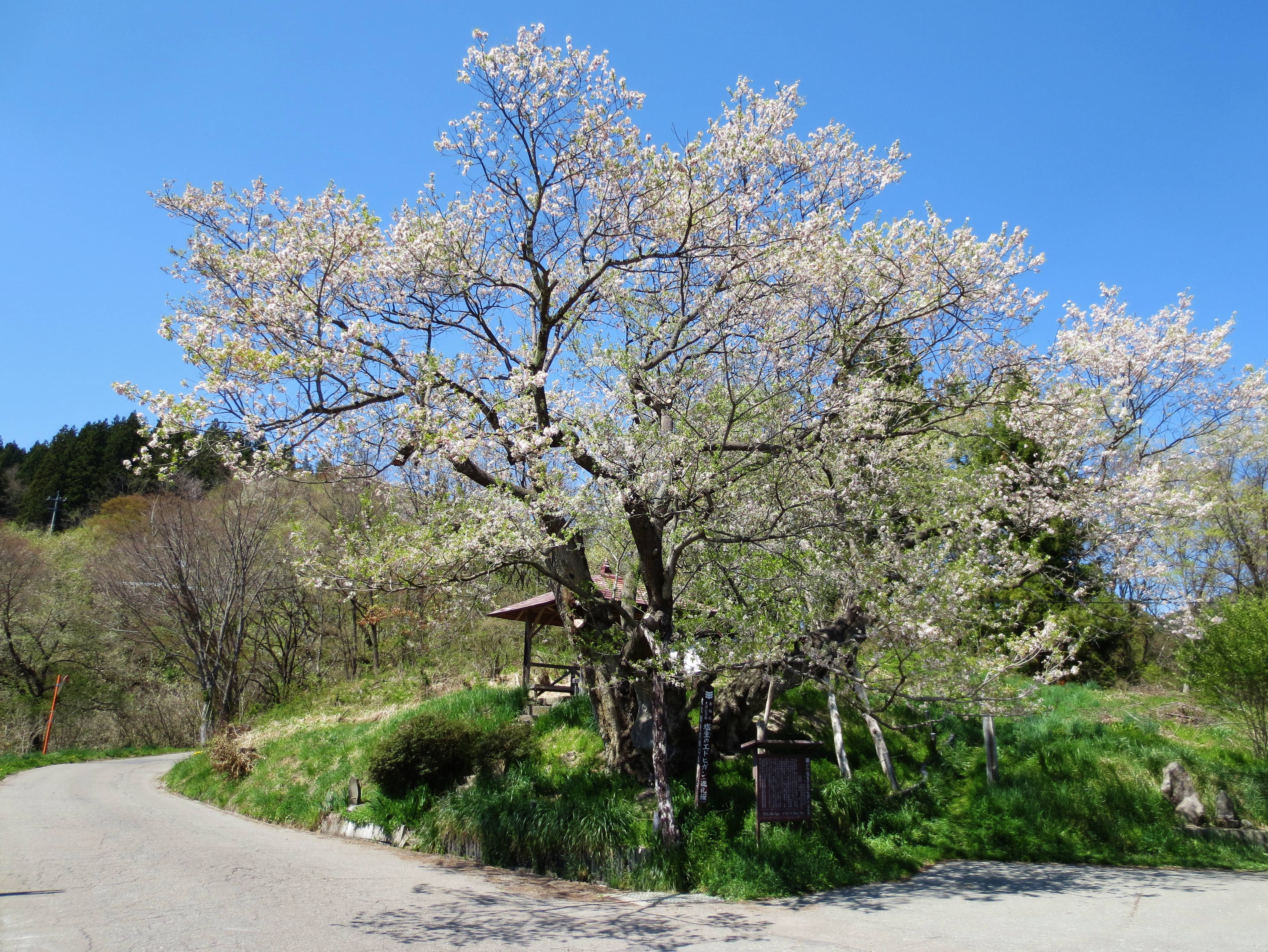 Junrei zakura.